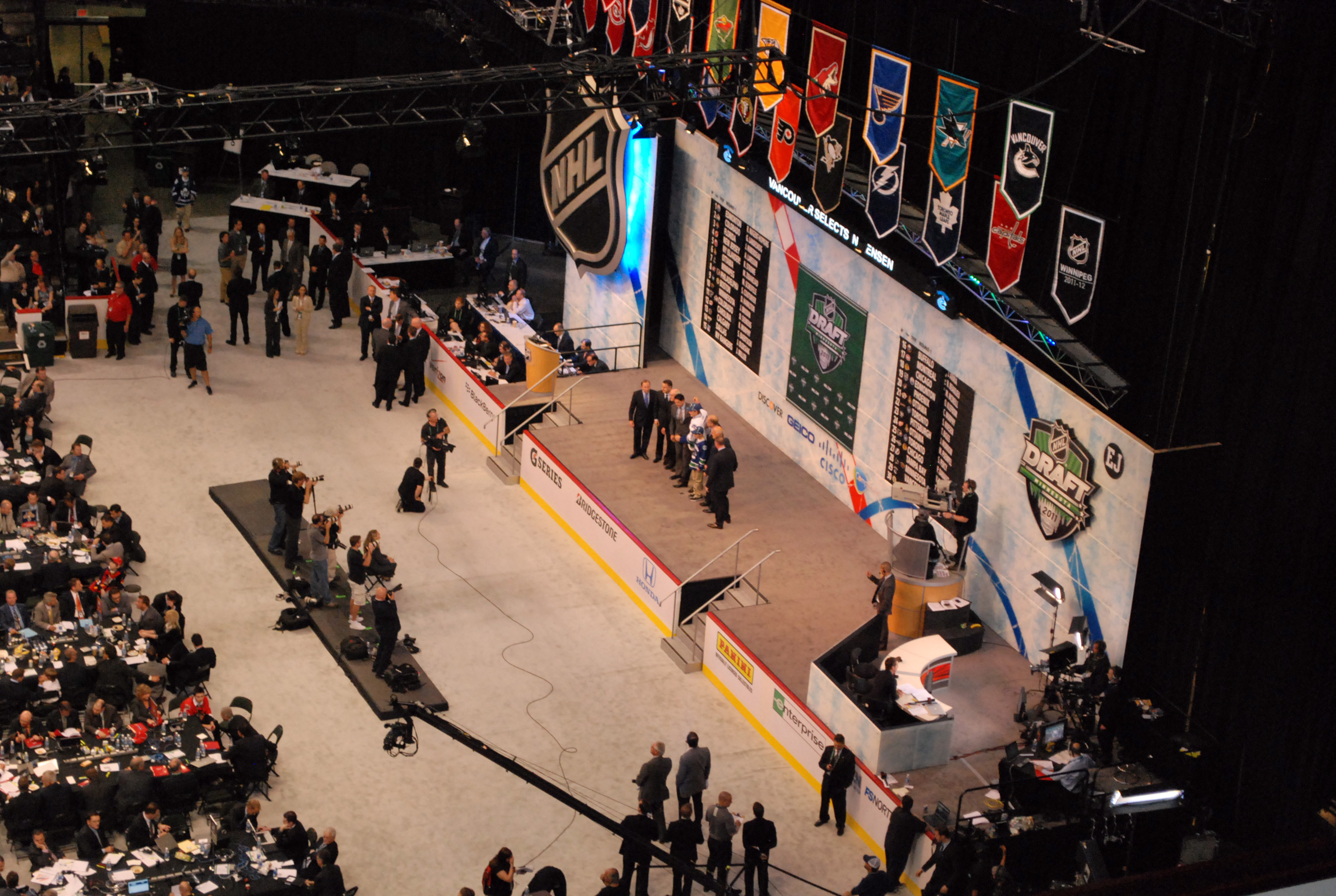 Nicklas Jensen selected 29th overall by the Vancouver Canucks